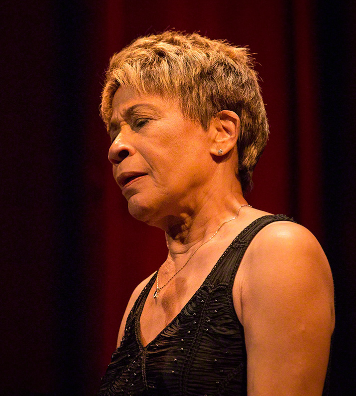 Bettye LaVette performs at Cosmopolite Scene in Oslo on 23.04.2016. Lineup:Bettye LaVette (vocals)Alan Hill (keyboard)Brett Lucas (guitar)James Simonson (bass)Daryll Pierce (drums)